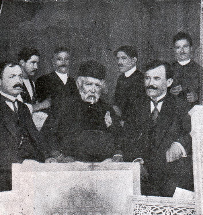 Family photo of Philipovs woodcarvers